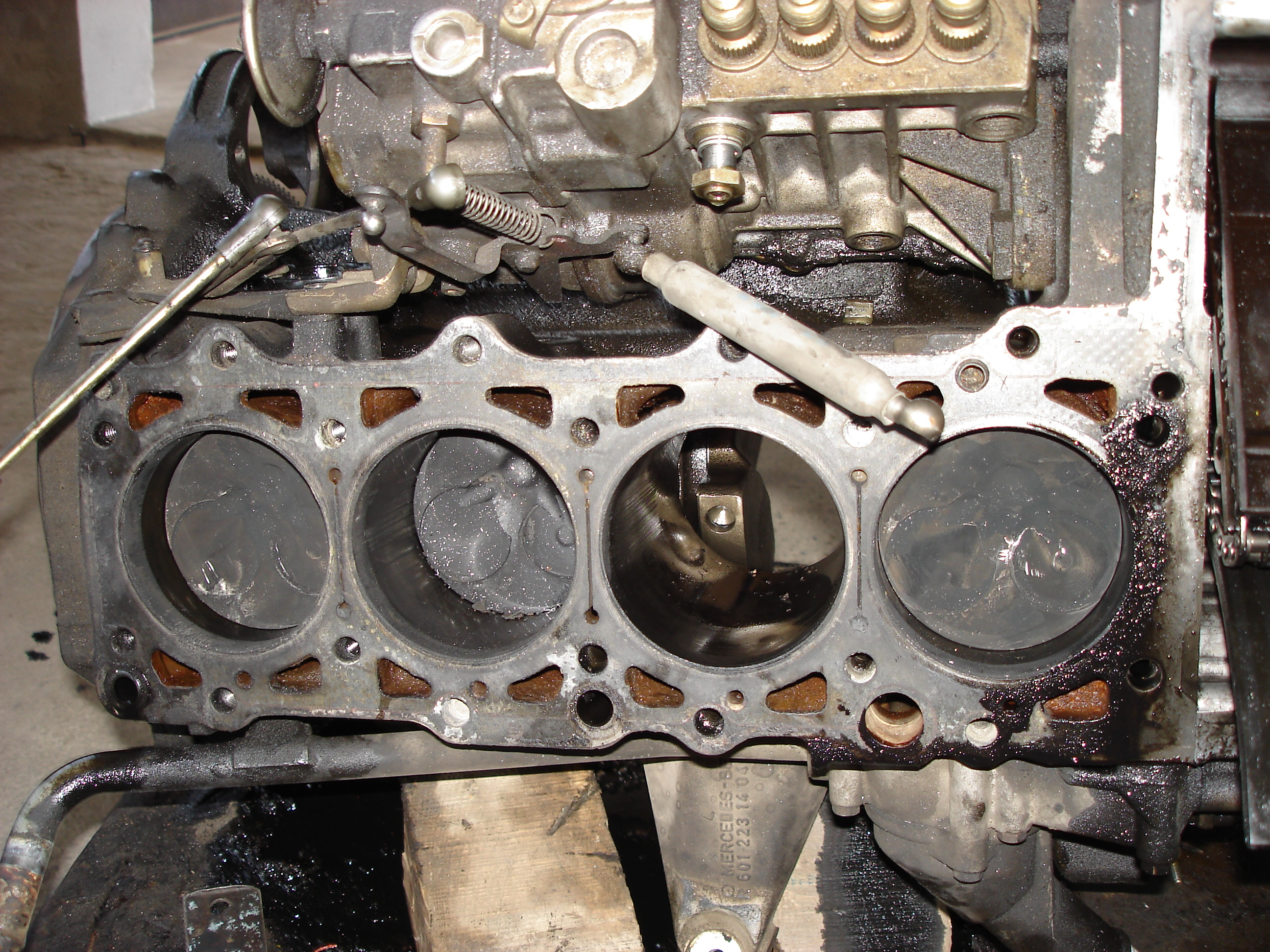 An OM601 engine with its engine head removed.